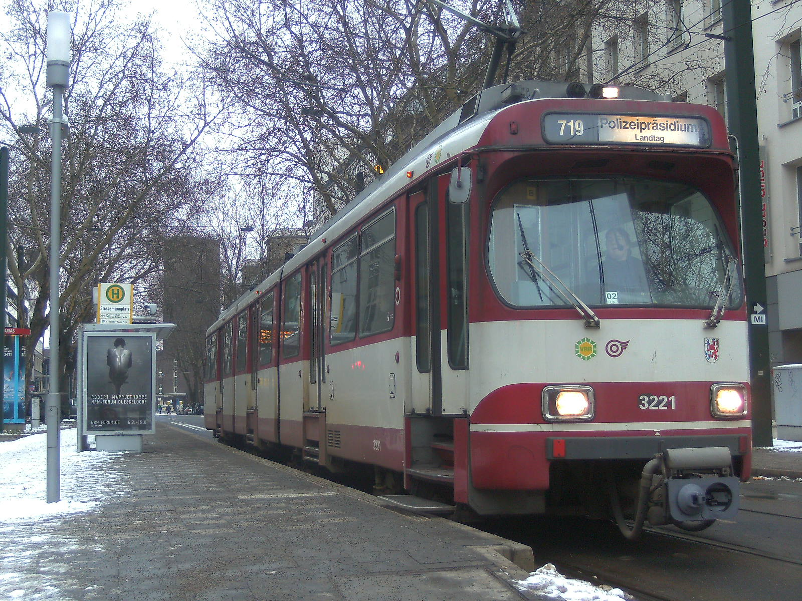 underground vehicle GT8SU nearby Düsseldorf main station